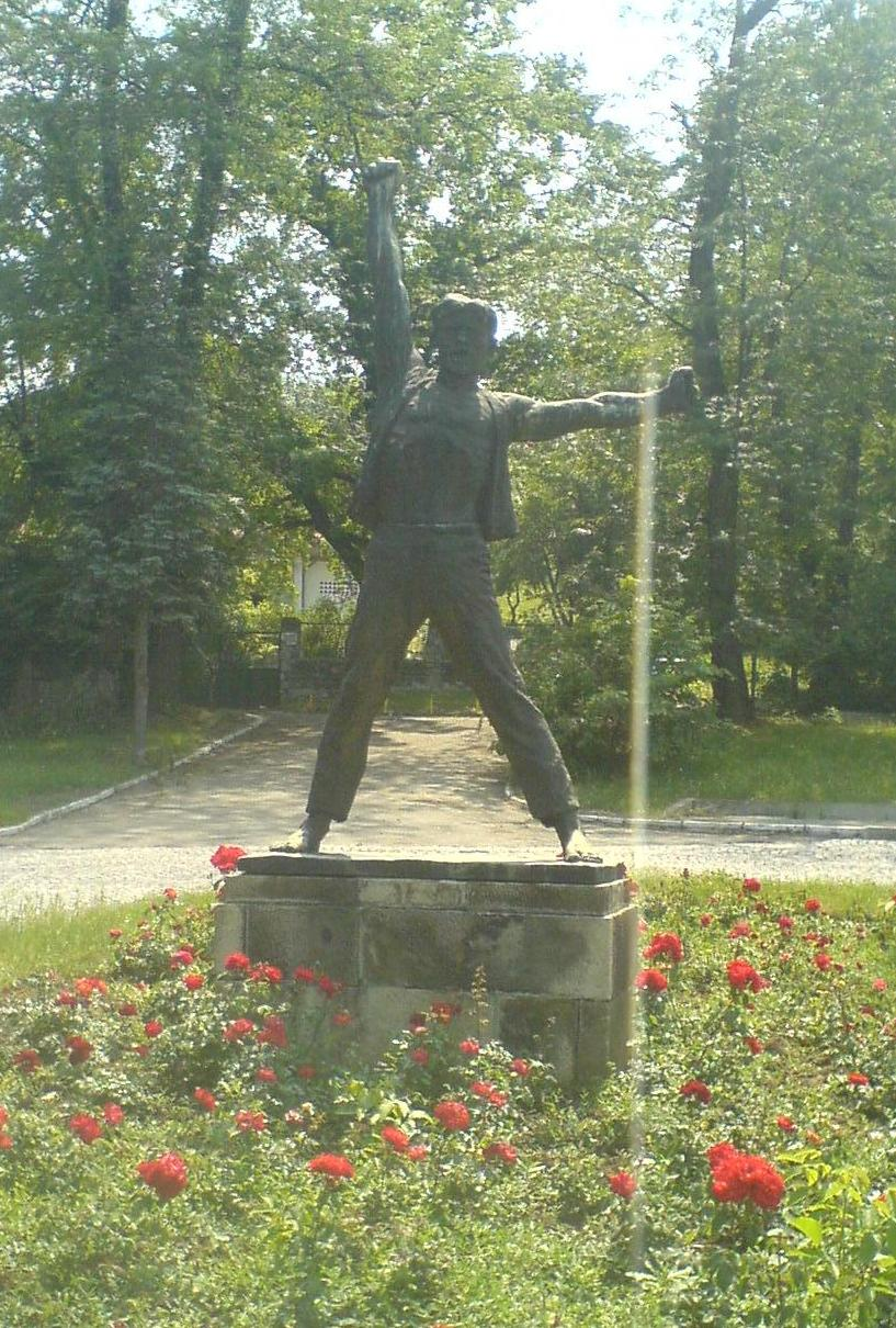 Monument "Call for uprising" of the sculptor Vojin Bakić. Belgrade Serbia